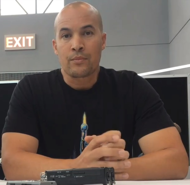 American actor Coby Bell of The Gifted, interviewed by Geeks of Doom at New York Comic Con in 2017